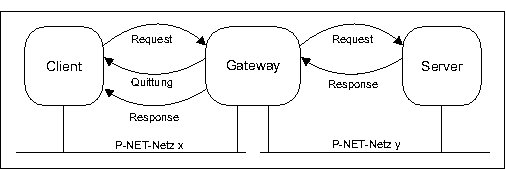 P-NET layer 3, regarding the OSI reference modell